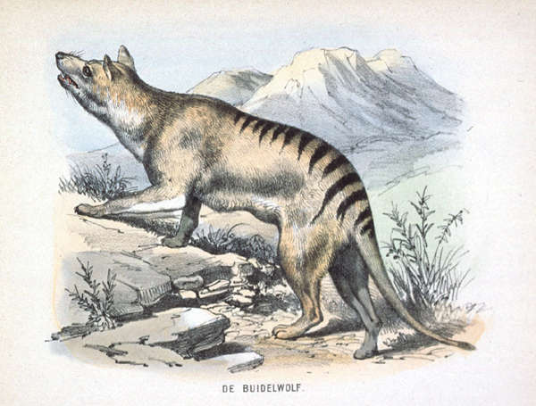 An illustration of thylacine, bearing the title De Buidelwolf. Attributed to R. Kretschmer, 1818-1872. The basis for a later engraving published in 1865? Variant by same artist published in "Brehm's Tierleben" in 1865. Hand-coloured lithograph 128 x 168 mm.